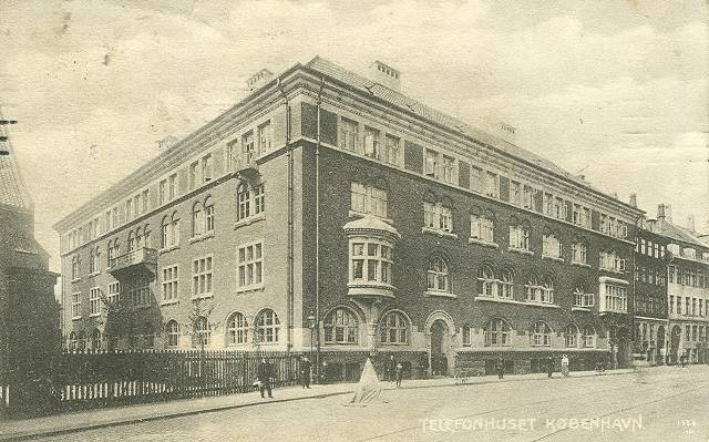 Telefonhuset on Nørregade photographed shortly after its completion in 1909 in Copenhagen, Denmark